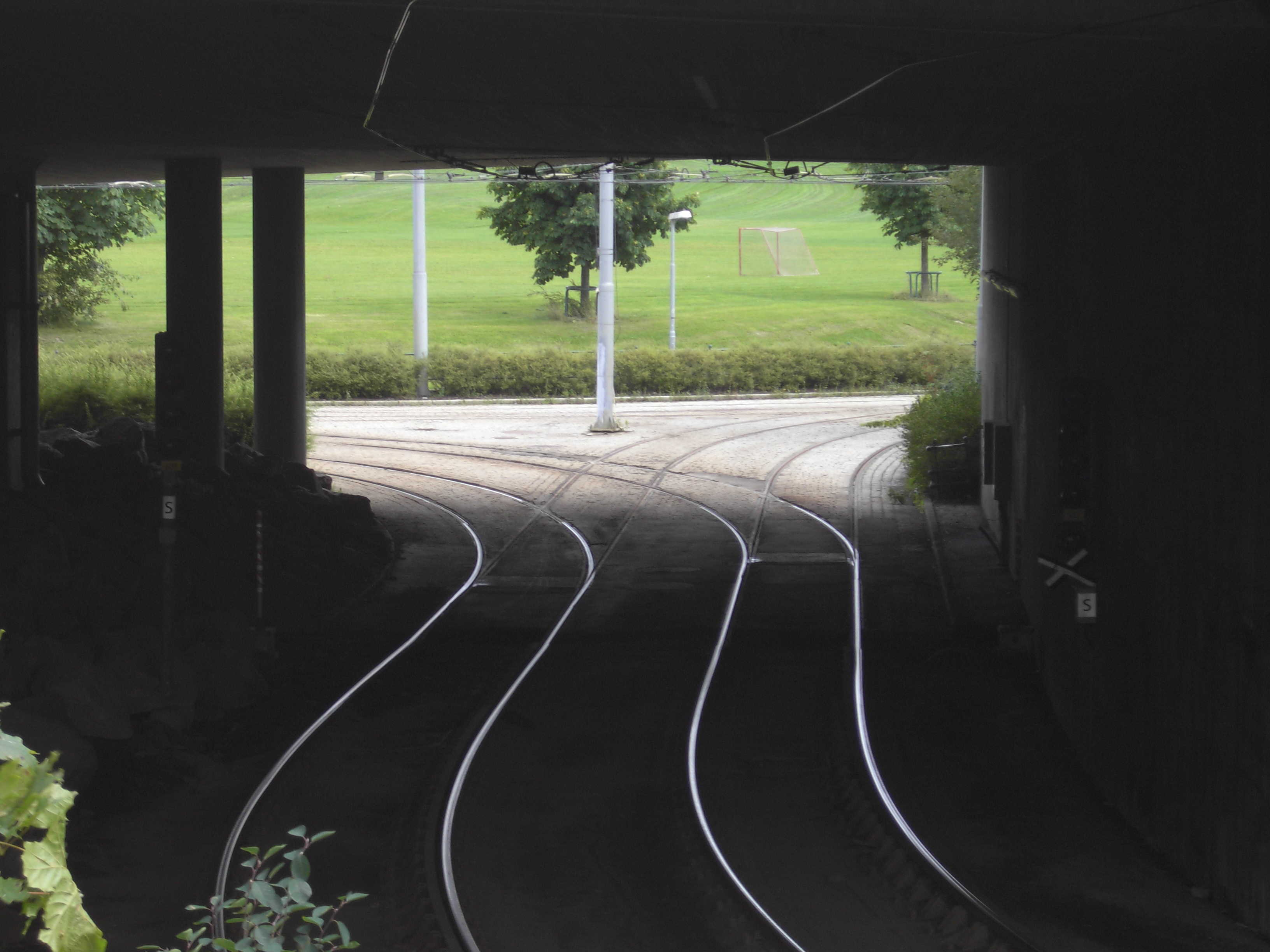 Tunnel on Sinsenlinjen